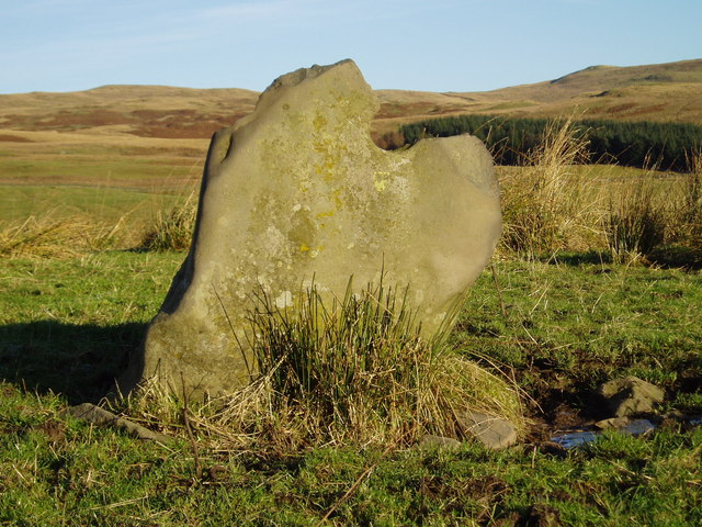 Hole Stone. Unfortunately this old stone has been damaged, possibly by cattle using it as a rubbing post - note the smooth edges. Its exact purpose or history is not documented.